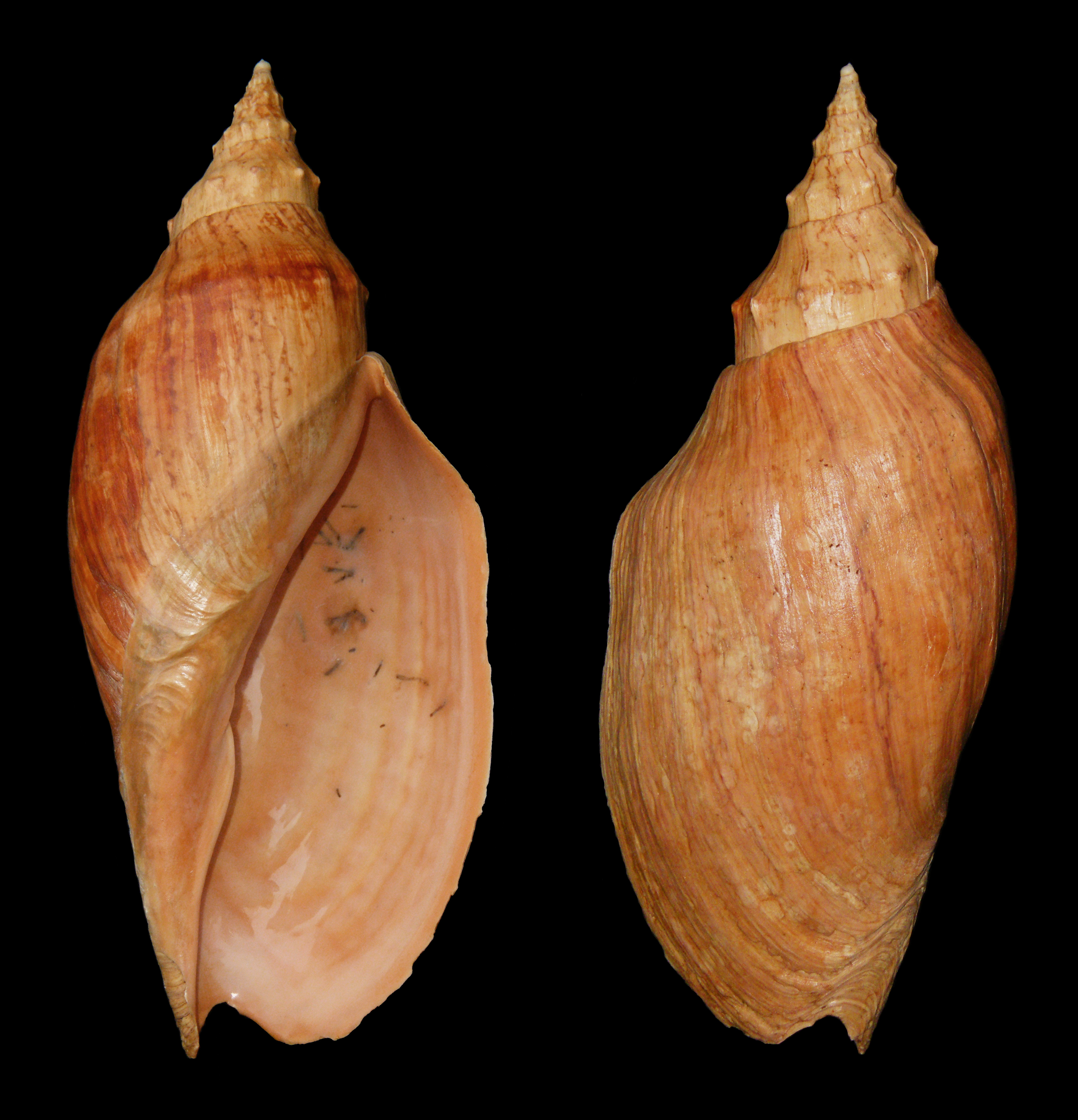 Adelomelon beckii Broderip, 1836. 80 km off Mar del Plata, Argentina, at 140 m depth. Trawled January 1989. 38 cm.